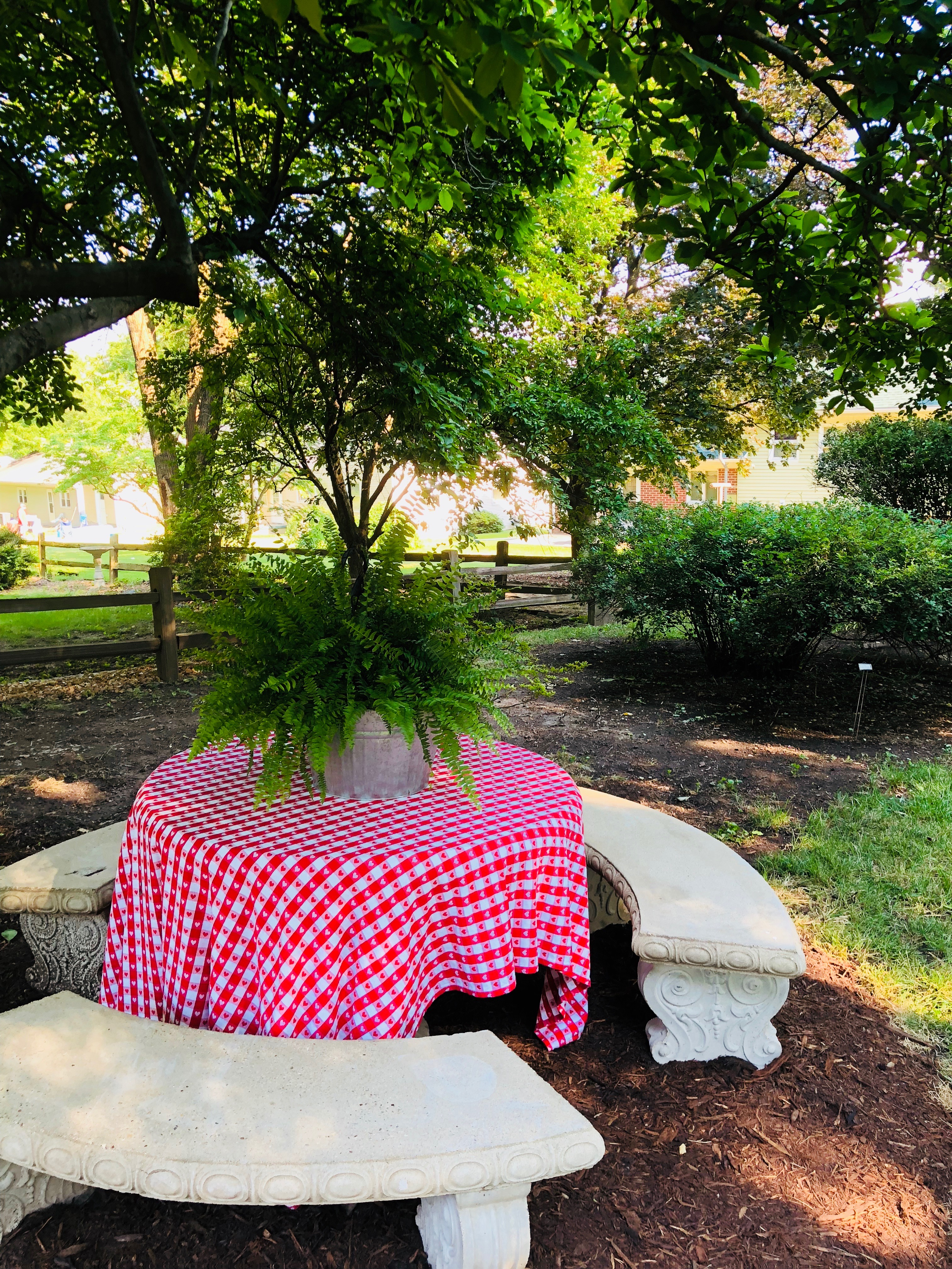 This photo was taken 17 June, 2018